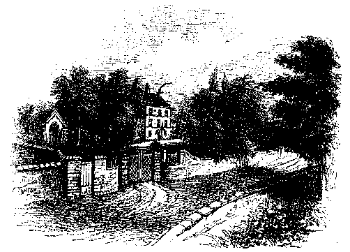 Potters school in Wymeswold Leicestershire. Thomas Rossell Potter (1799- 1873), antiquary